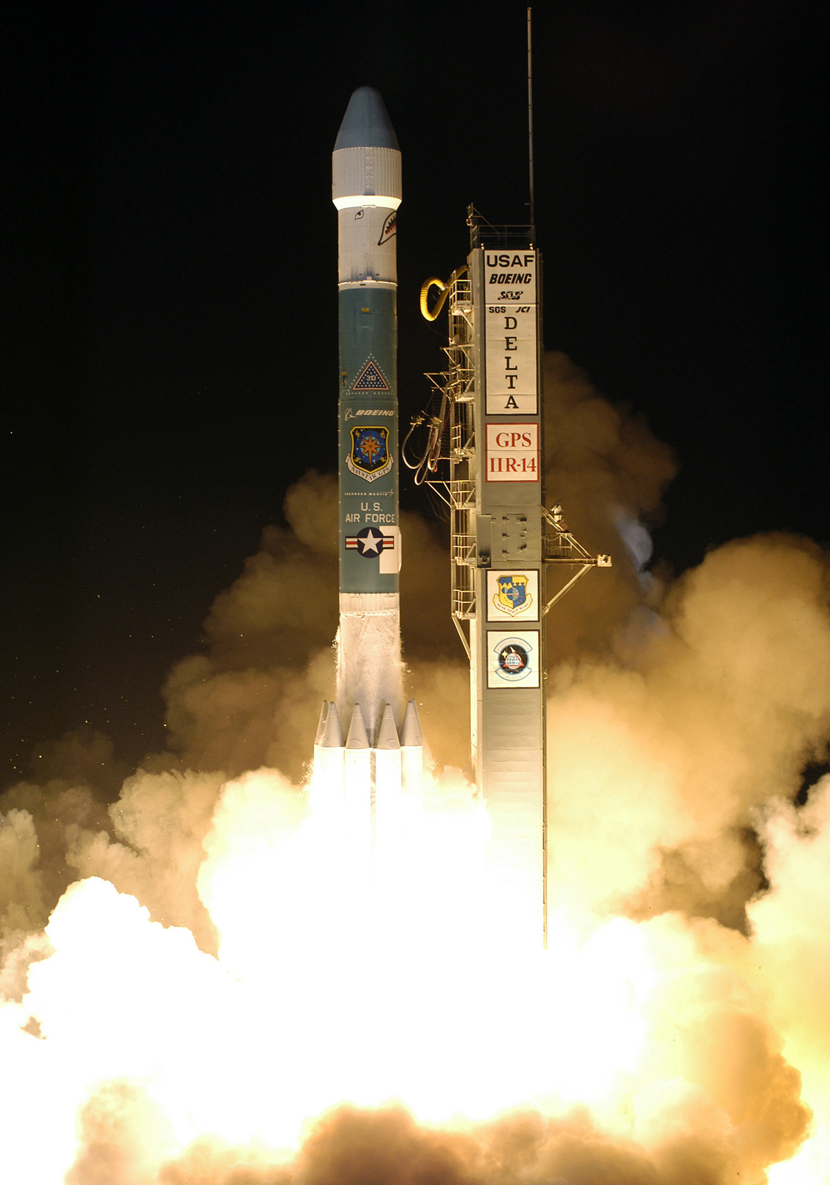 The Boeing Company's Delta II space launch vehicle lifts off from complex 17A, Cape Canaveral Air Force Station, Fla., Sept. 25, 2005, carrying the Department of Defense NAVSTAR Global Positioning Satellite IIR-14 (M) into orbit.